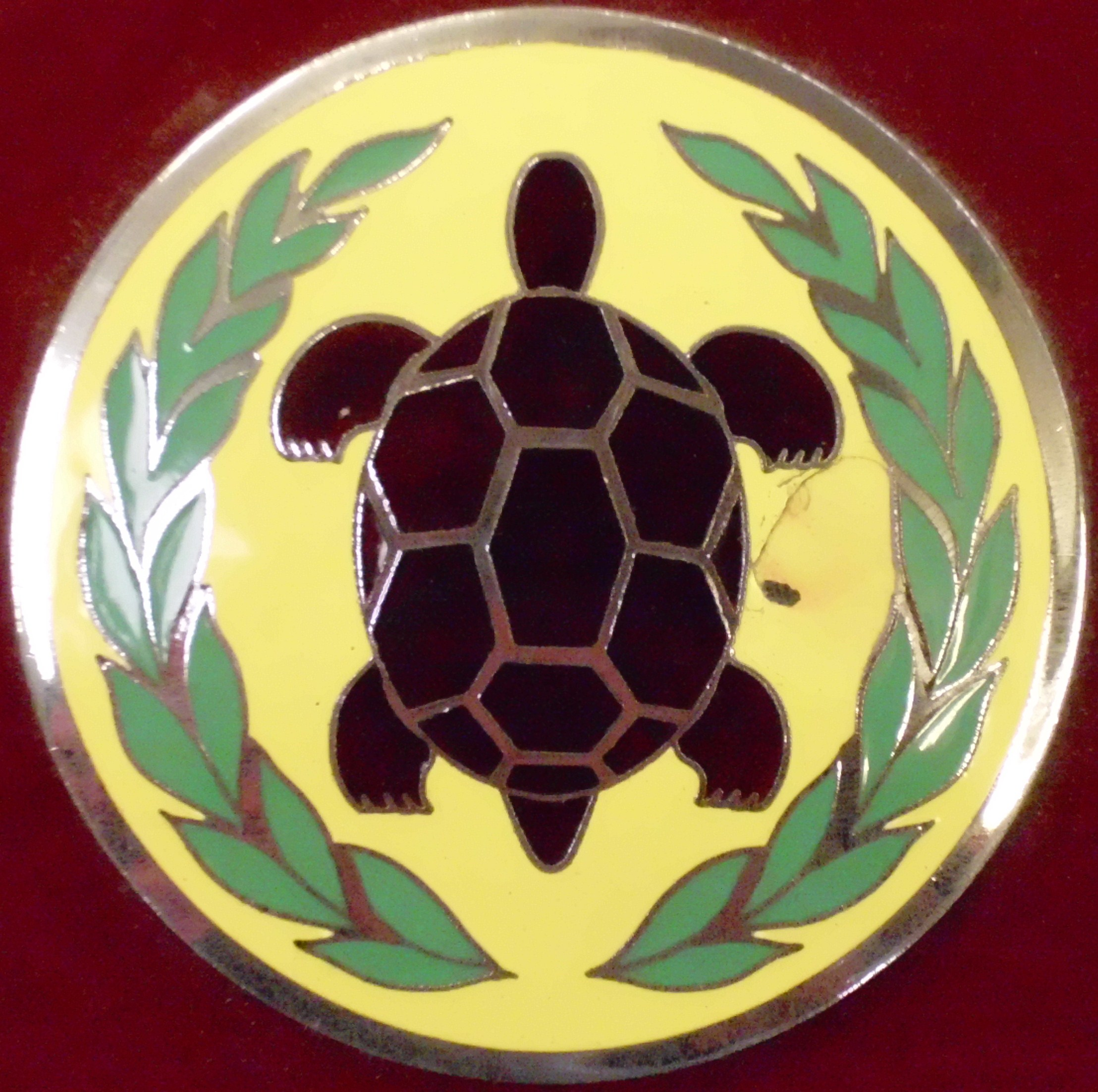 Emblem Gordon-Keeble